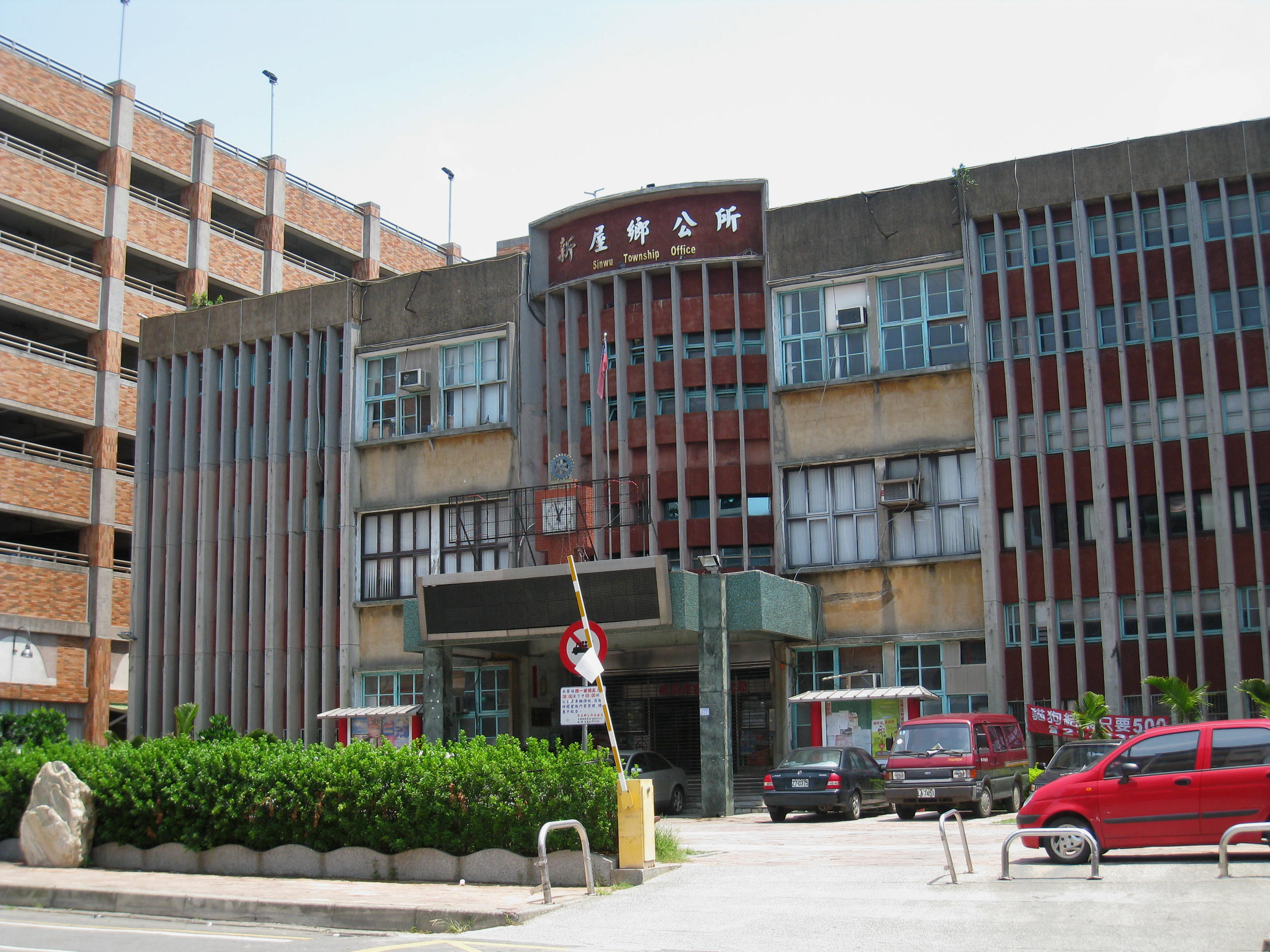 Sinwu Township Office